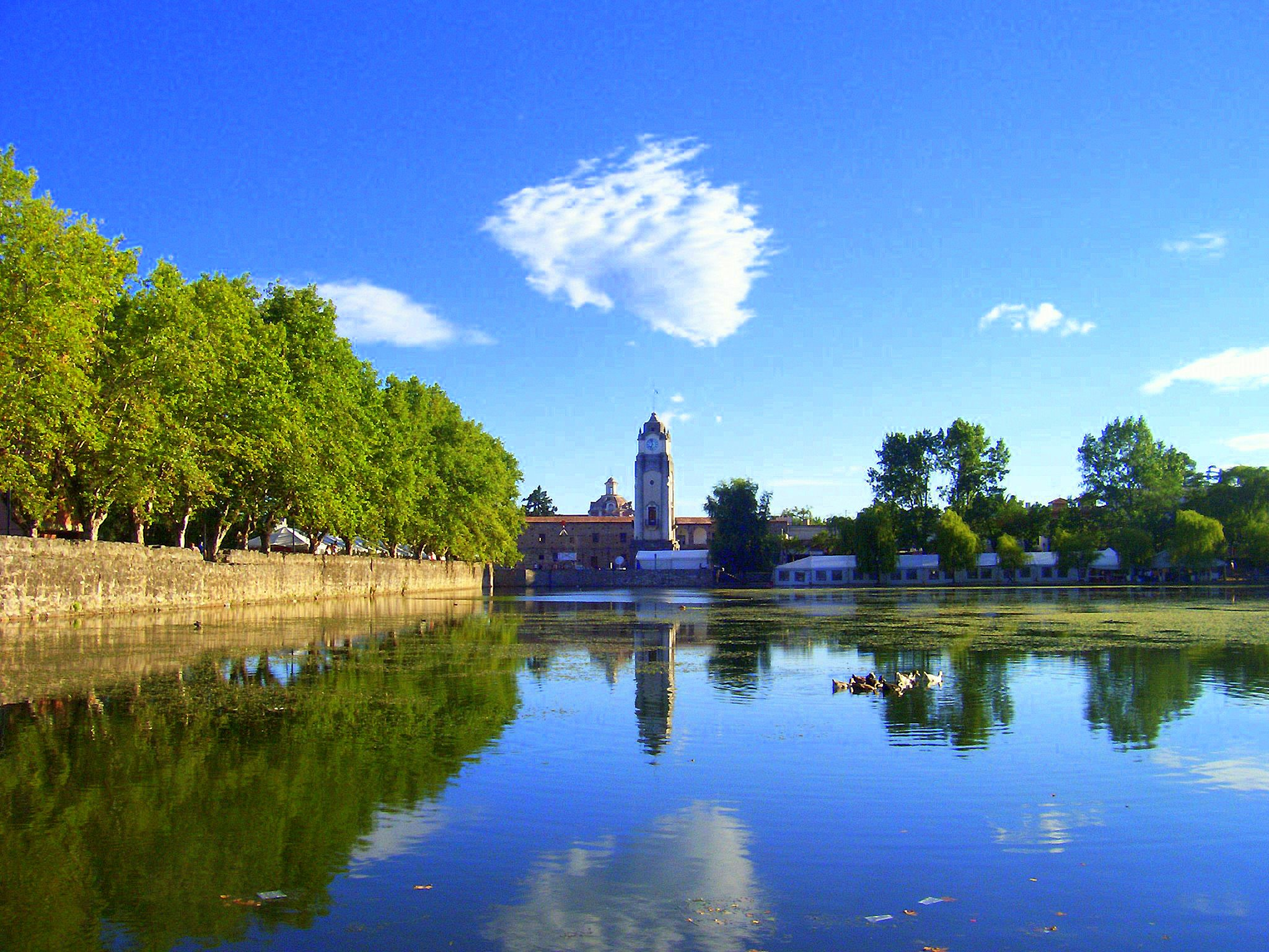 Estancia (residence) of the Jesuit reduction in Alta Gracia City, Cordoba Province, Argentina.